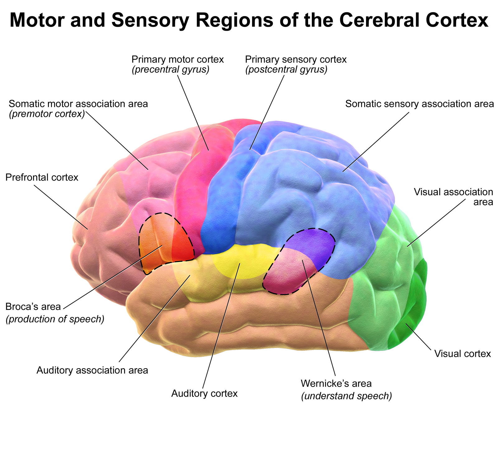 Motor and Sensory Regions of the Cerebral Cortex. This image was donated by Blausen Medical. Please visit our website to see more medical illustrations and animations.